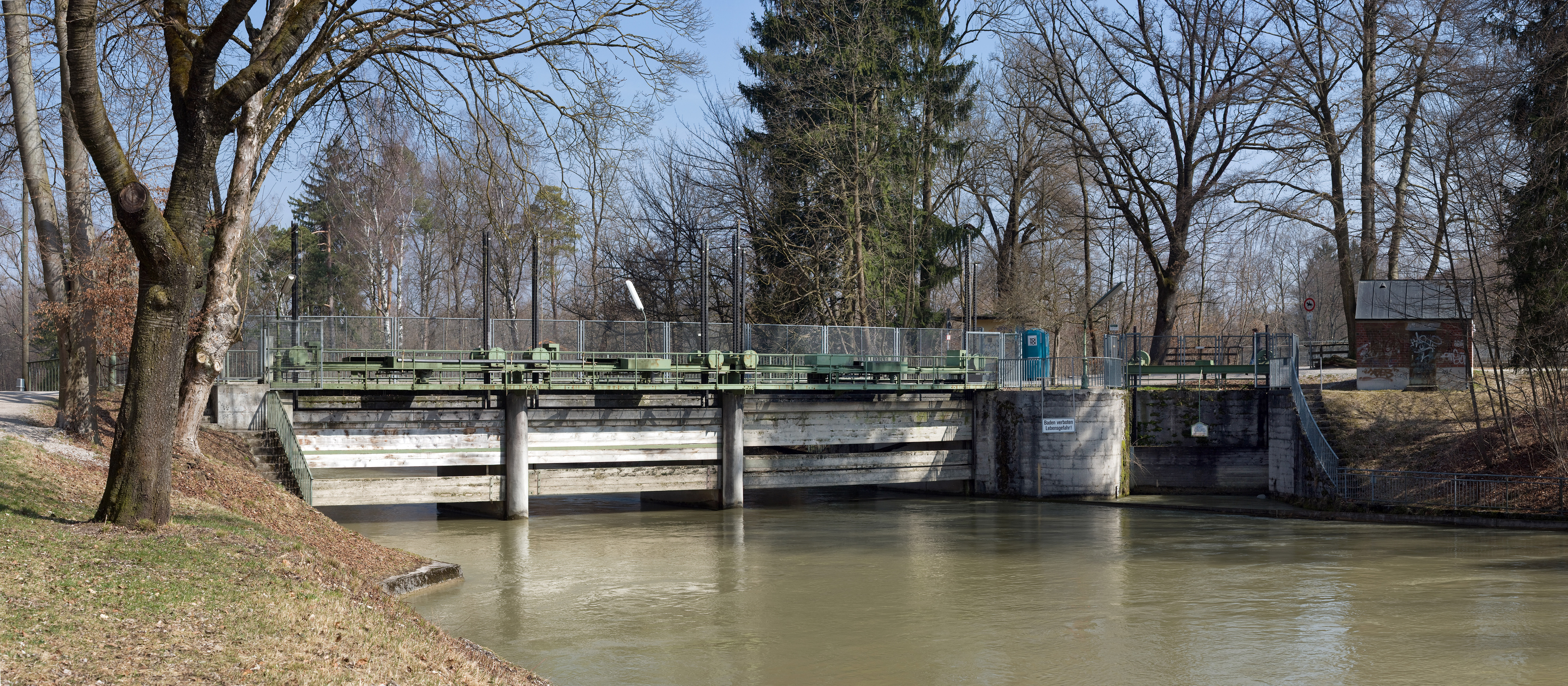 Weir Auer Duecker. Isarkanal at Marienklausenbruecke, Munich, Germany